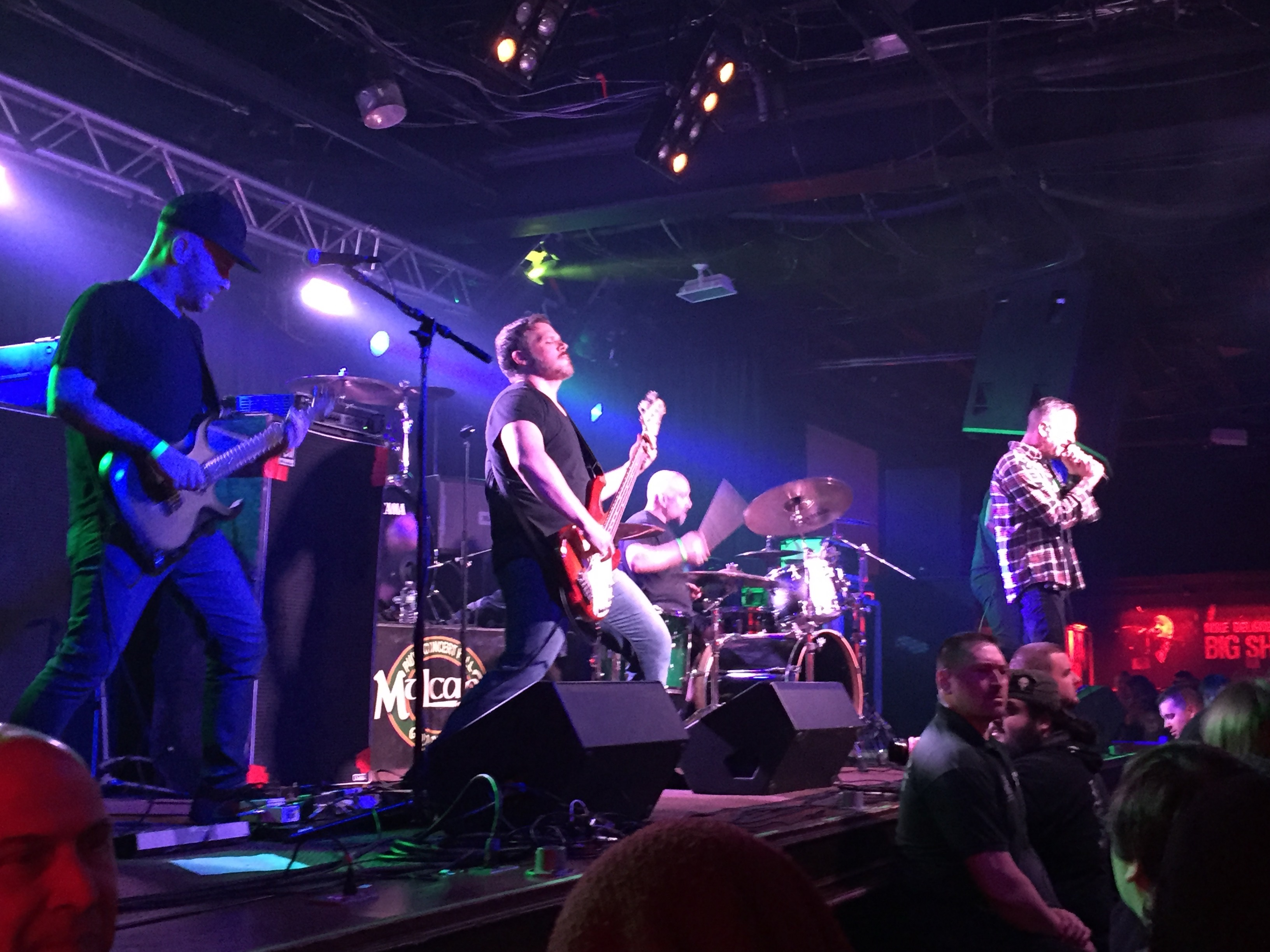 VOD live at Mulcahys, 5-13-17 (Josh Demarco, Mike Fleischmann, Brendan Cohen, and Tim Williams (Mike Kennedy not visible)).